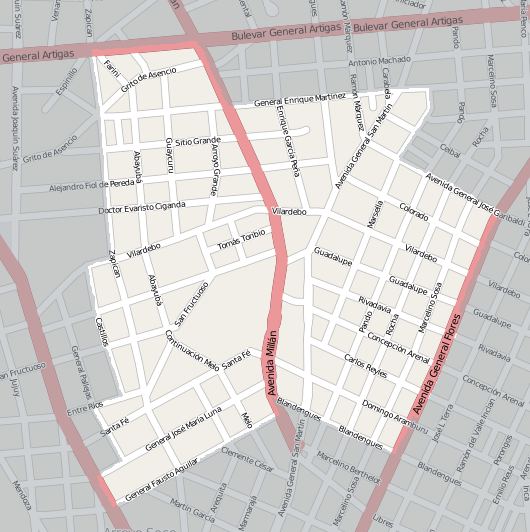 Street map of Reducto, Montevideo, exported from OpenStreetMap. I added shading to delimit the barrio. This map may be incomplete, and may contain errors. Don't rely solely on it for navigation.